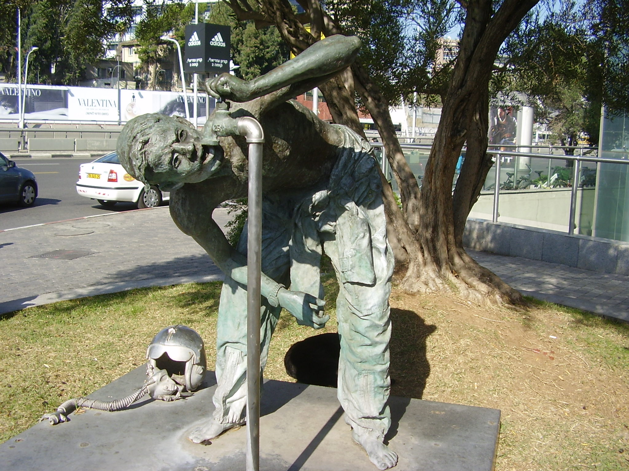 "Untitled" by Asaf Lifshitz in Tel Aviv